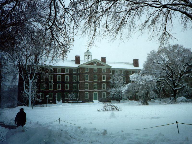 University Hall of Brown University